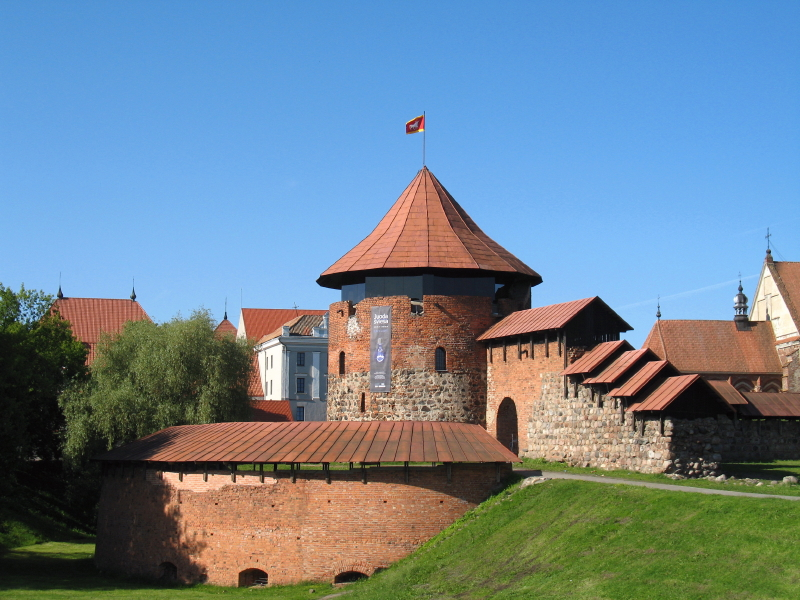 Kaunas Castle, Lithuania.